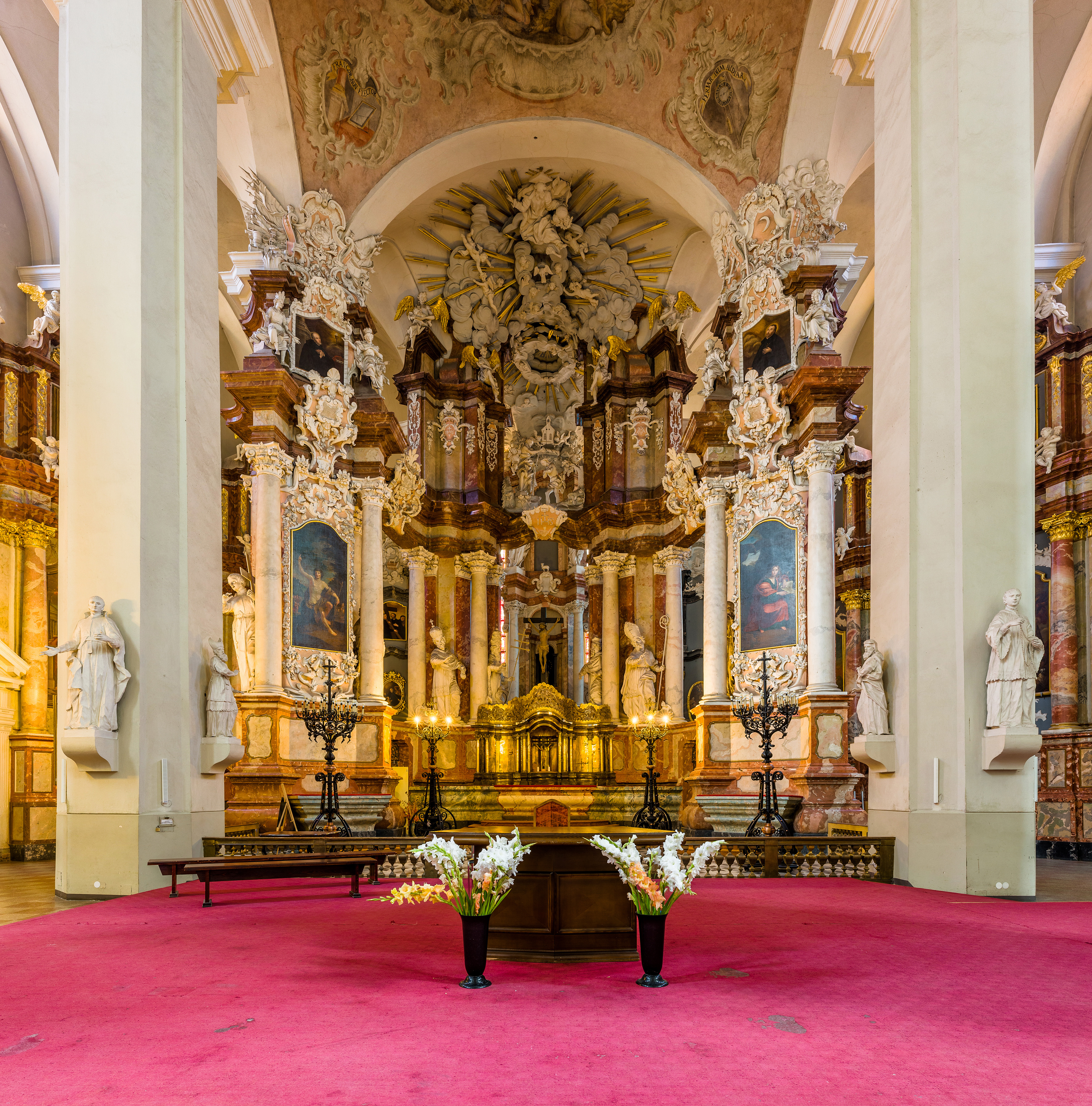 The Church of St. Johns in Vilnius University, Vilnius, Lithuania.